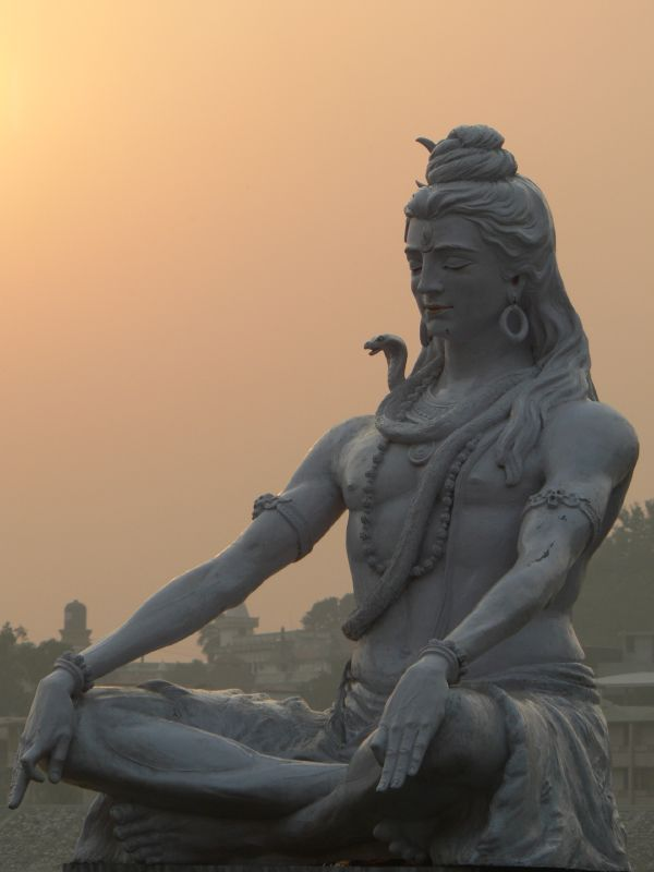 Shiva statue in Parmarth Niketan ghat in Laxman Jhula, Rishikesh (India).